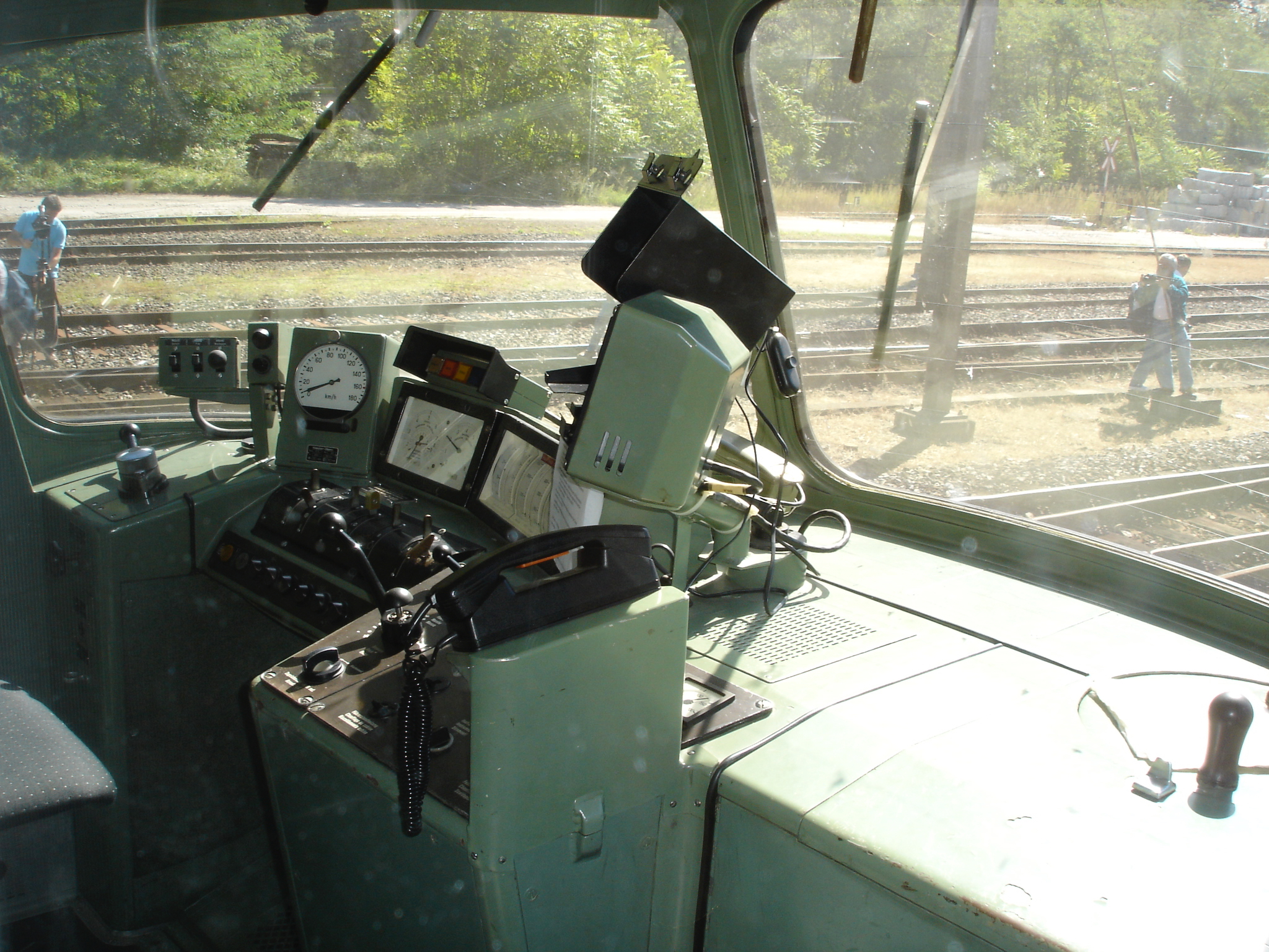 Driving cab of the preserved SBB CFF FFS RAe TEE II 1053.